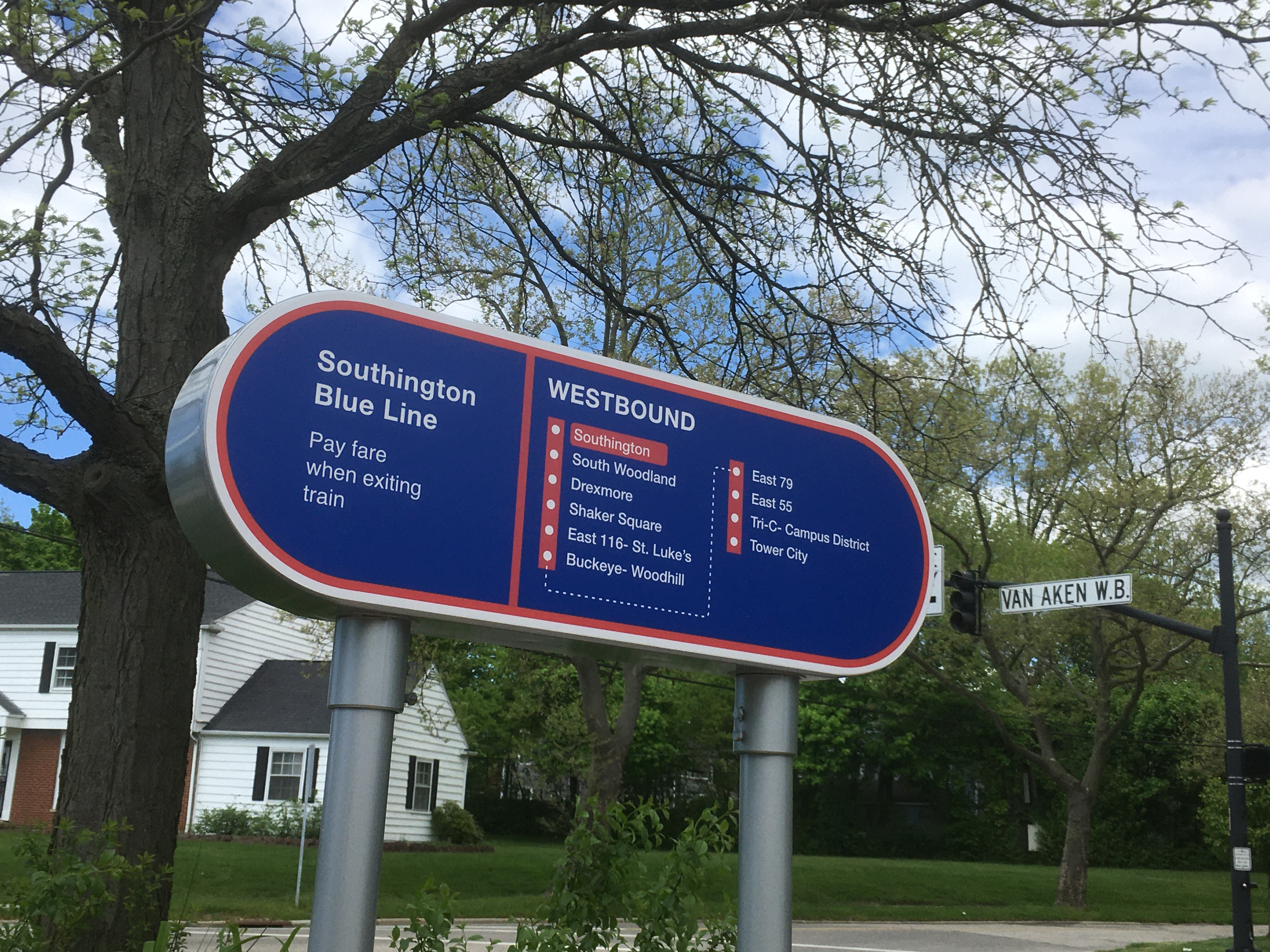 Southington Blue 2020 sign